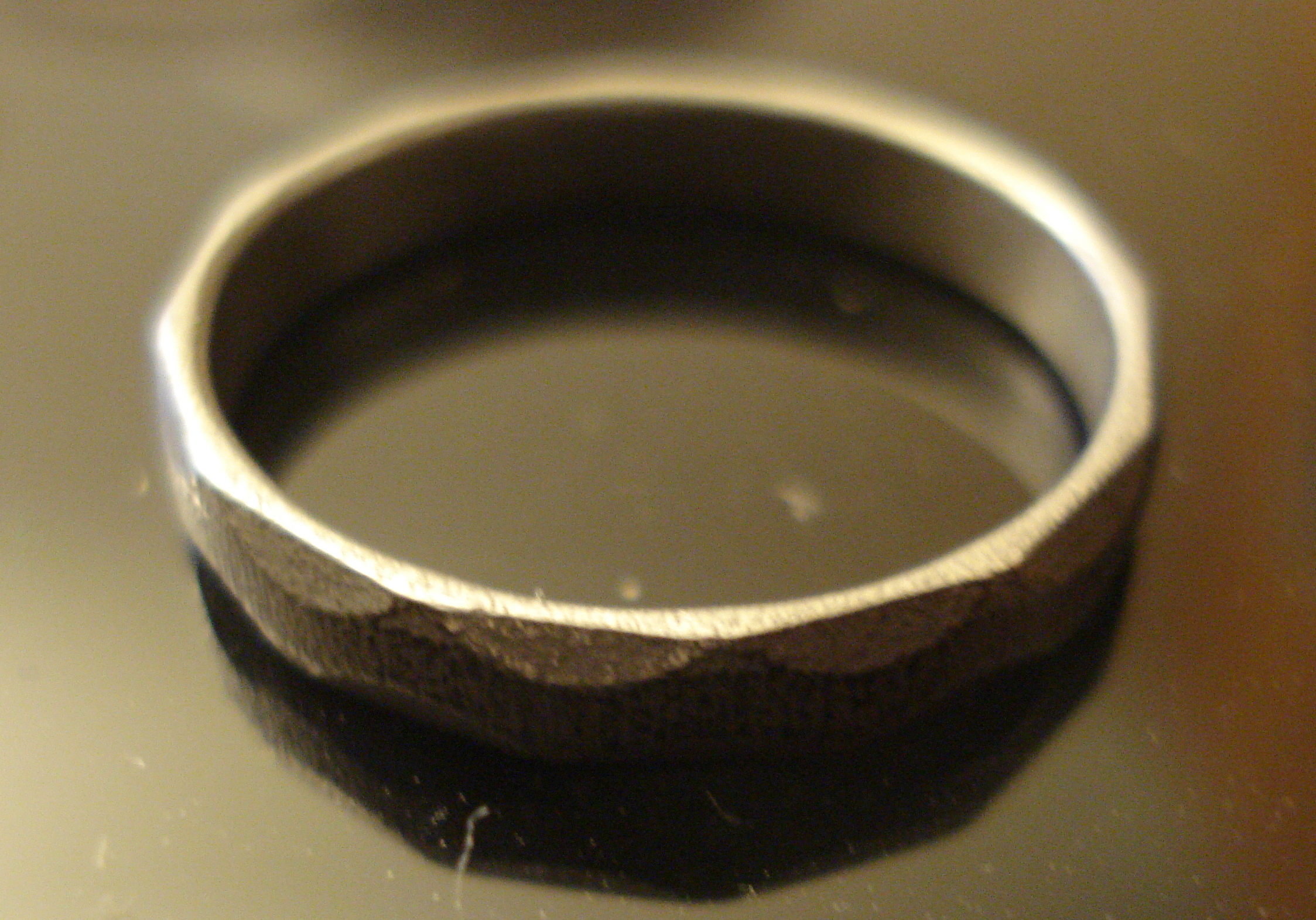 Iron Ring, iron version, 2005